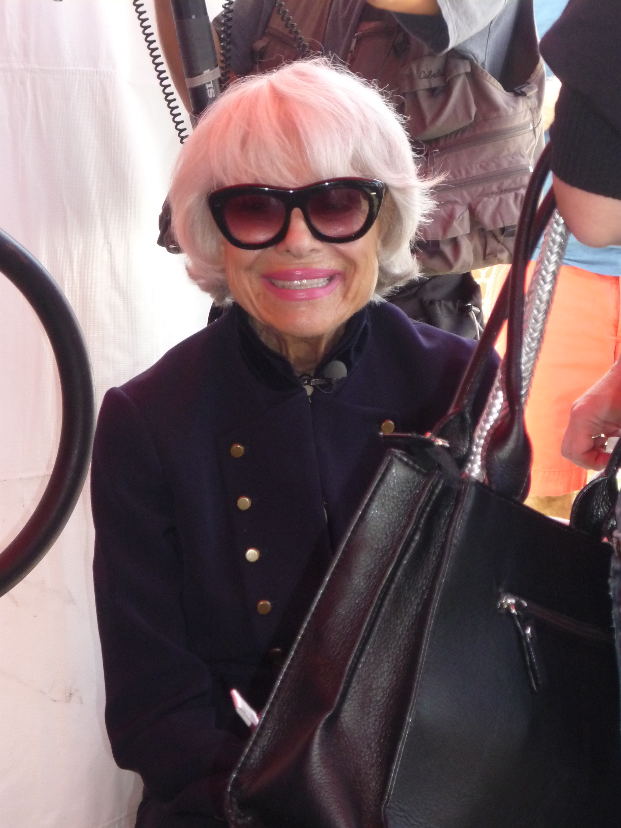 Carol Channing preparing to speak to an adoring crowd at the West Hollywood Book Fair in Oct. 2009.